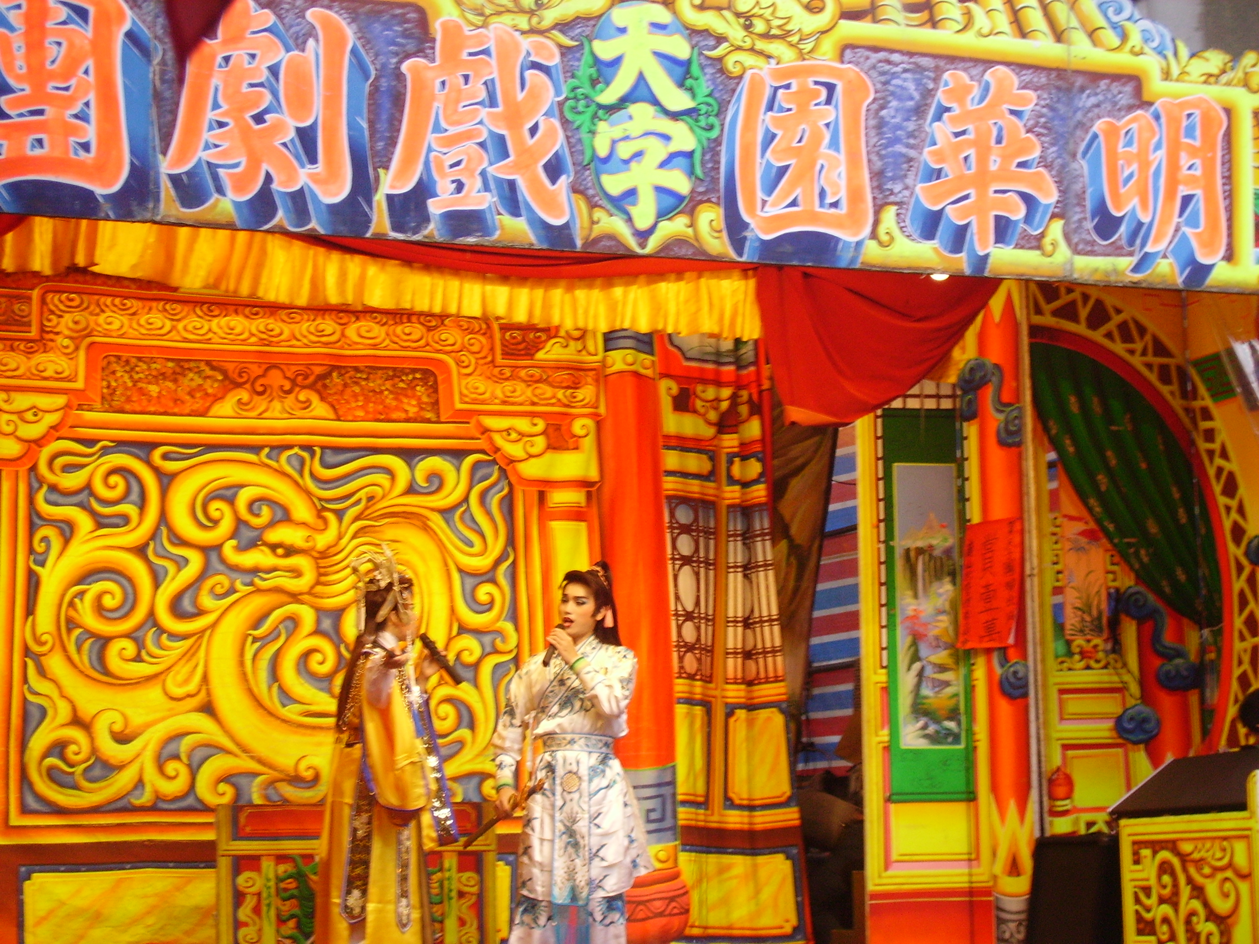 Taiwanese Ke-Tse opera Bân-lâm-gú: Tâi-uân kua-á-hì （臺灣歌仔戲）